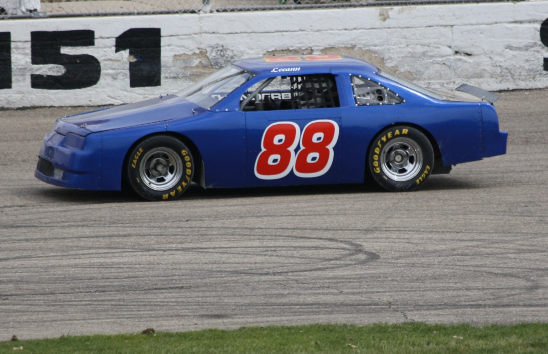 An Allison Legacy Series car after winning at Columbus 151 Speedway near Columbus, Wisconsin.